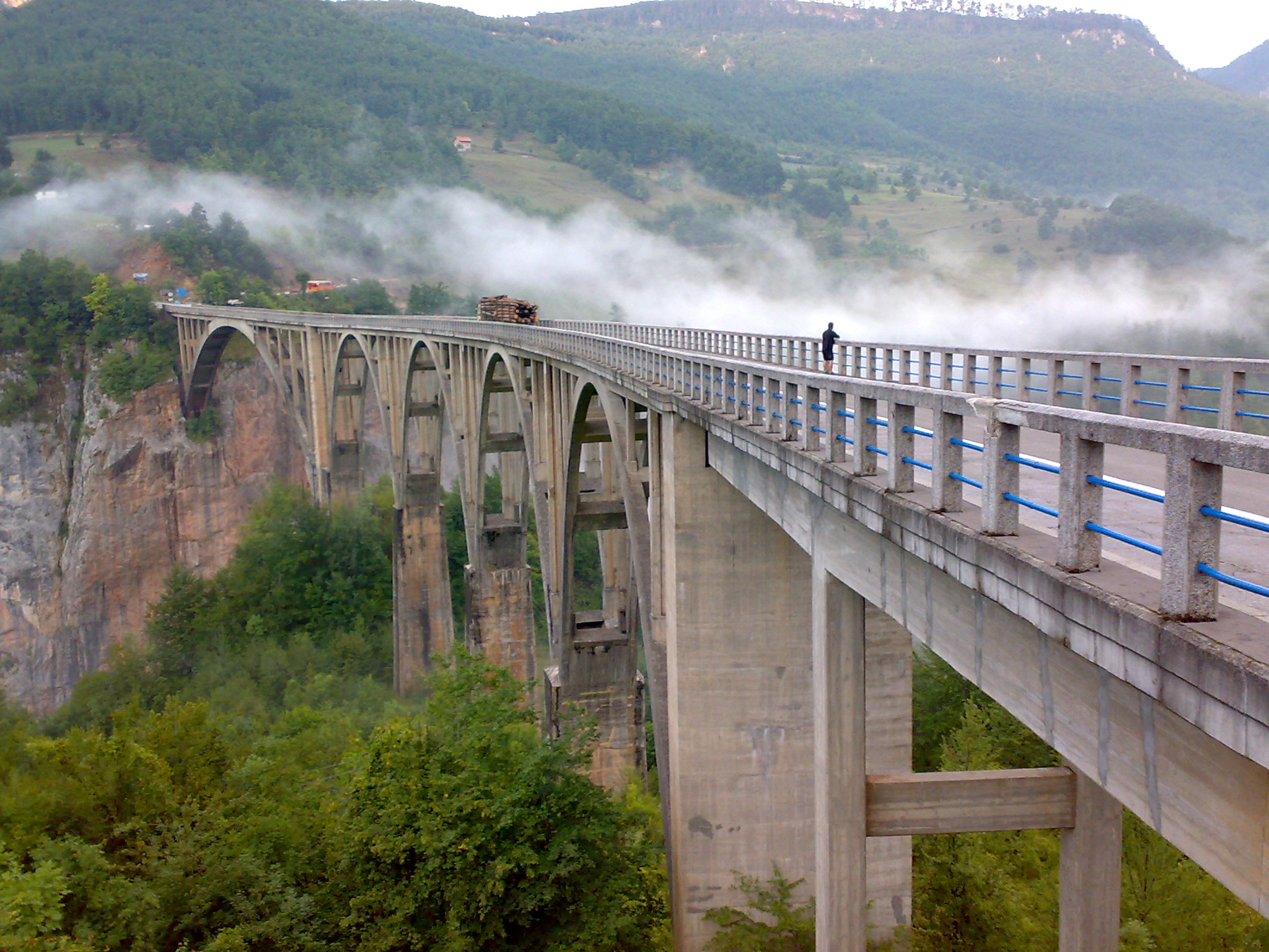 Fog near the Đurđevića Bridge over Tara River